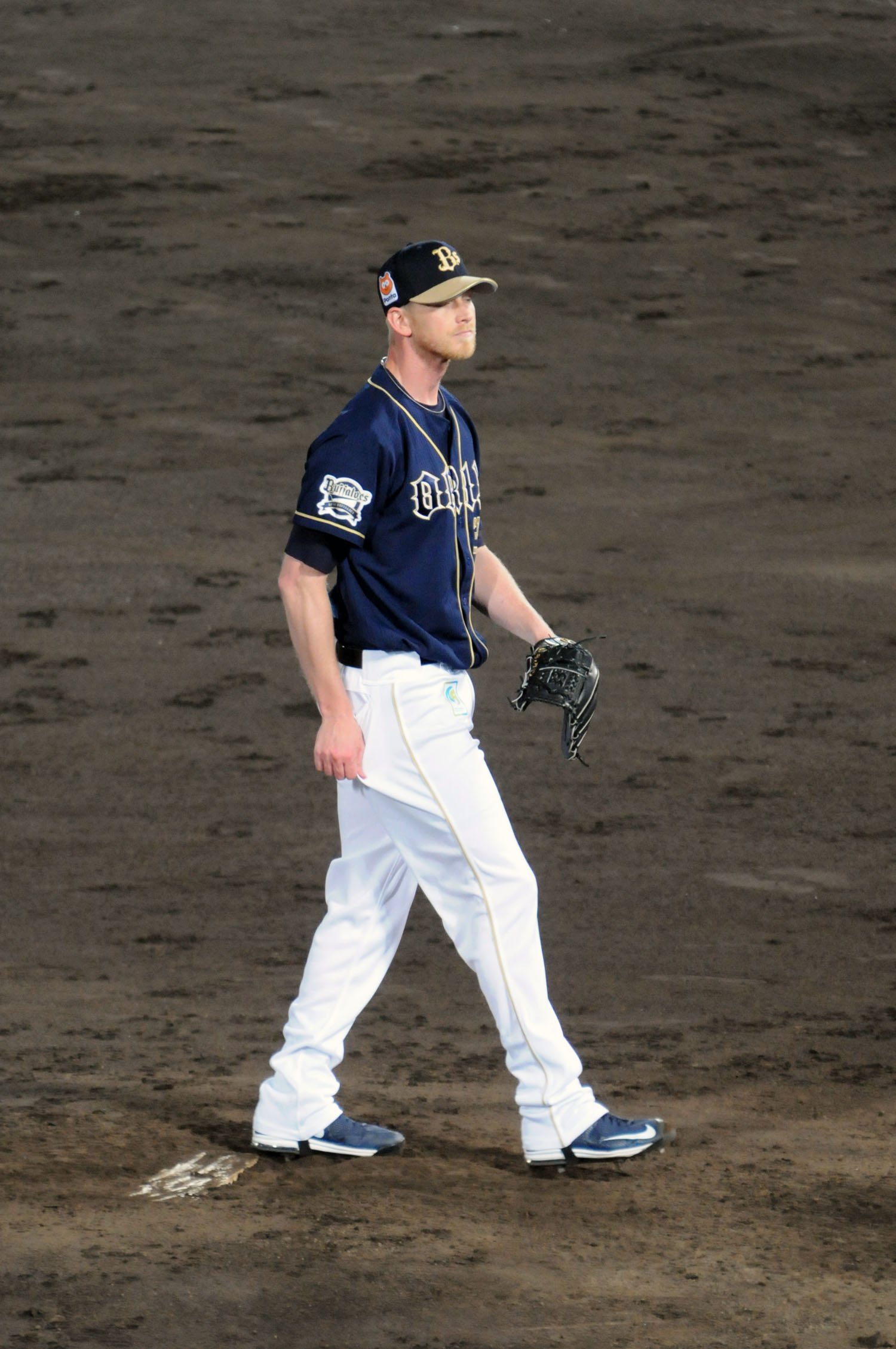 Brandon Dickson, pitcher of the Orix Buffaloes, at Akita Prefectural Baseball Stadium